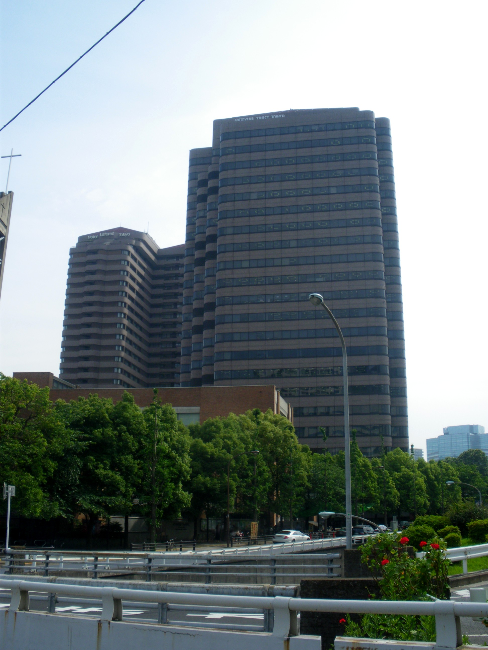 an overview of Gotenyama Hills(kitashinagawa,Shingawa,Tokyo)